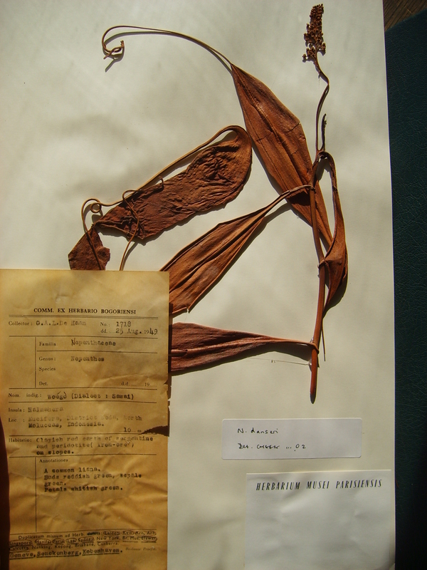 Isotype herbarium specimen of Nepenthes halmahera (previously identified as N. danseri) deposited at the Museum National d'Histoire Naturelle in Paris, France.